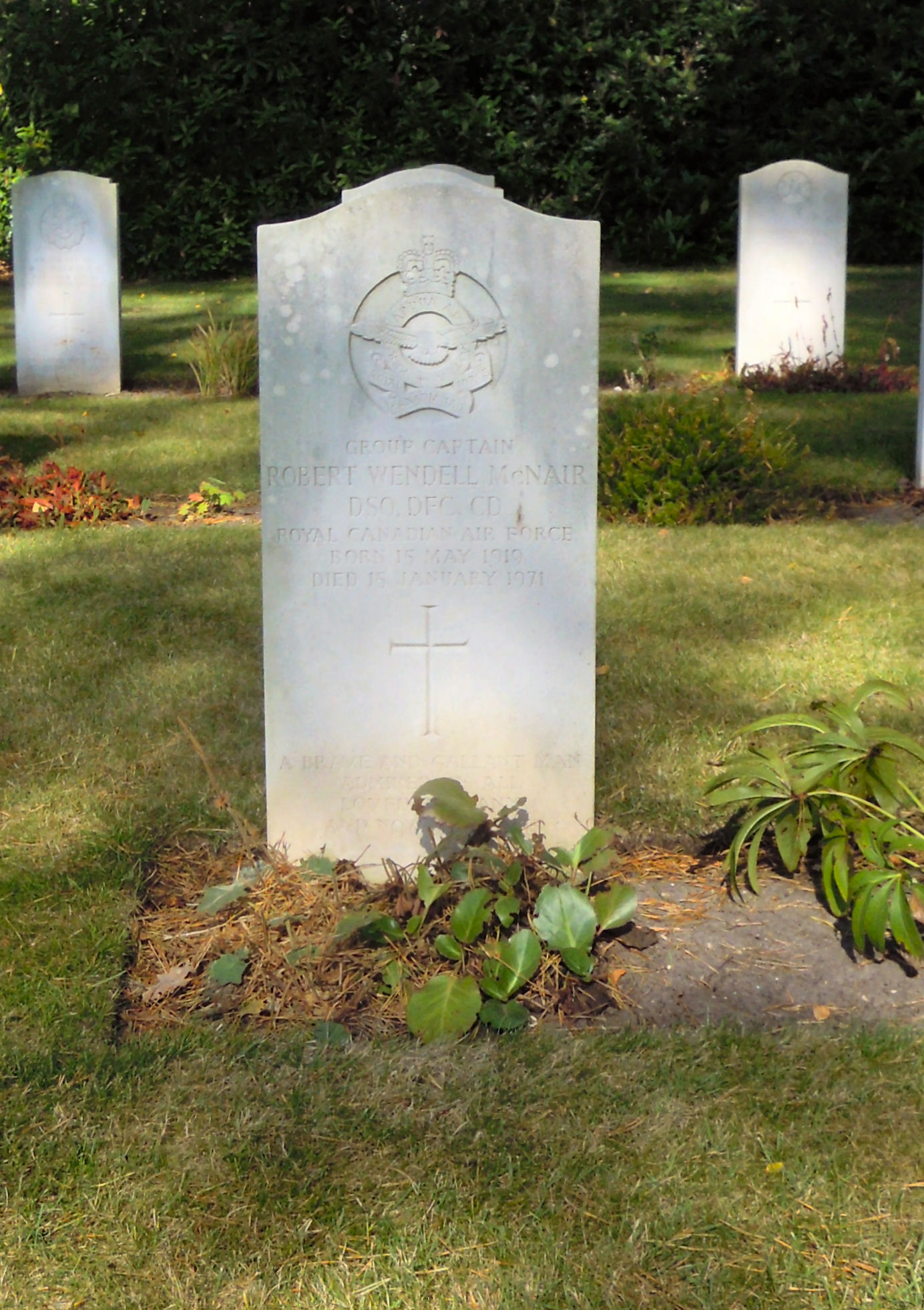 The grave of Buck McNair in Brookwood Cemetery